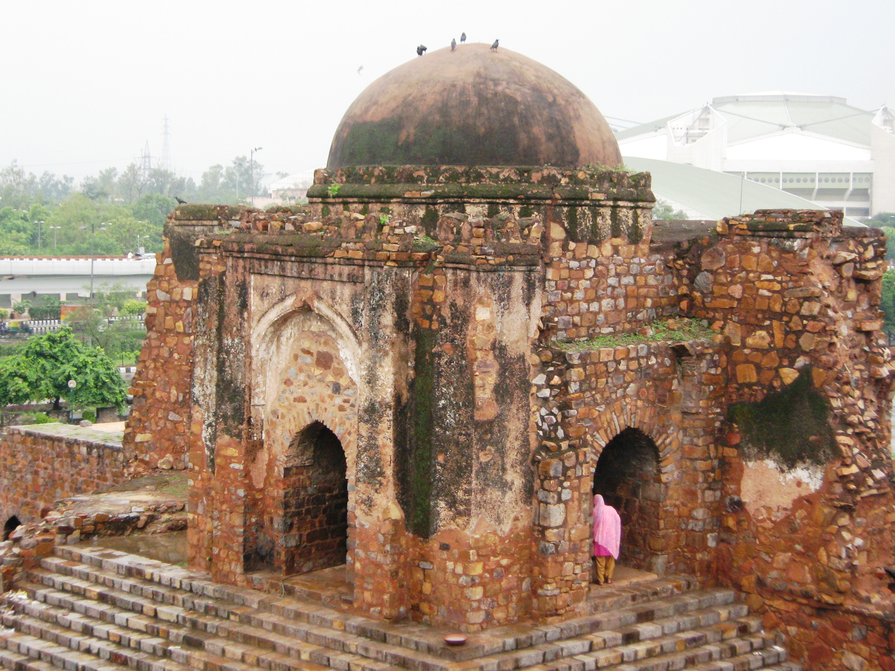 Old degraded mosque, Feroz Shah Kotla, Delhi adjacent to Ashoka Pillar